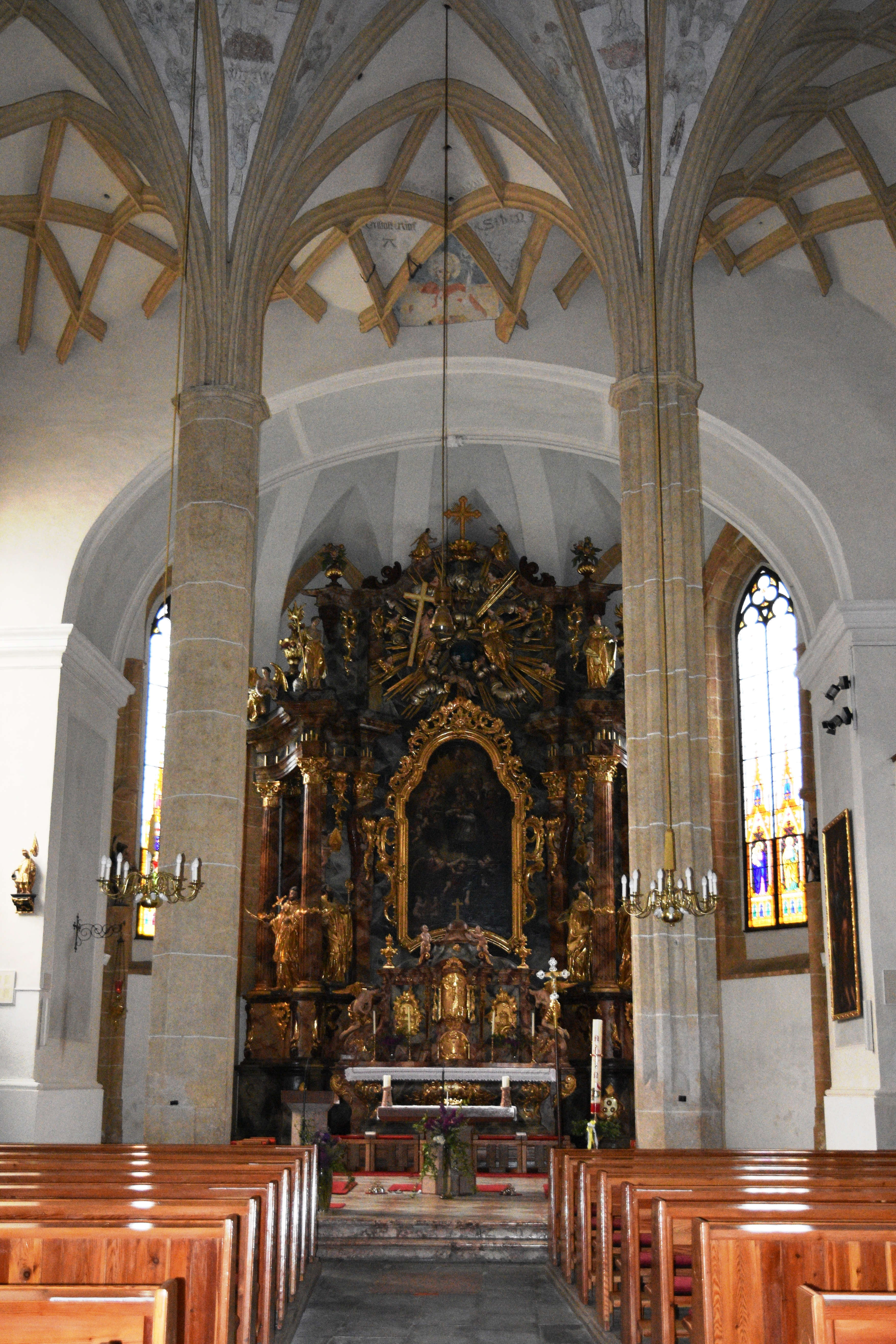 church Stadtpfarrkirche St. Nikolaus Rottenmann Interior